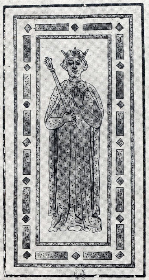 Tomb of Isabelle of Hainault of Cathedrale of Notre Dame